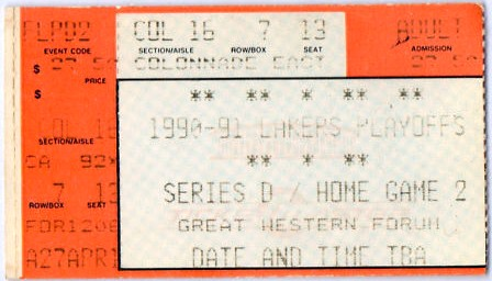 A ticket for Game 4 of the 1991 NBA Finals featuring the Chicago Bulls versus the Los Angeles Lakers at the Great Western Forum on June 9, 1991. The Bulls defeated the Lakers 97-82 in Game 4 and eventually won the series 4-1.